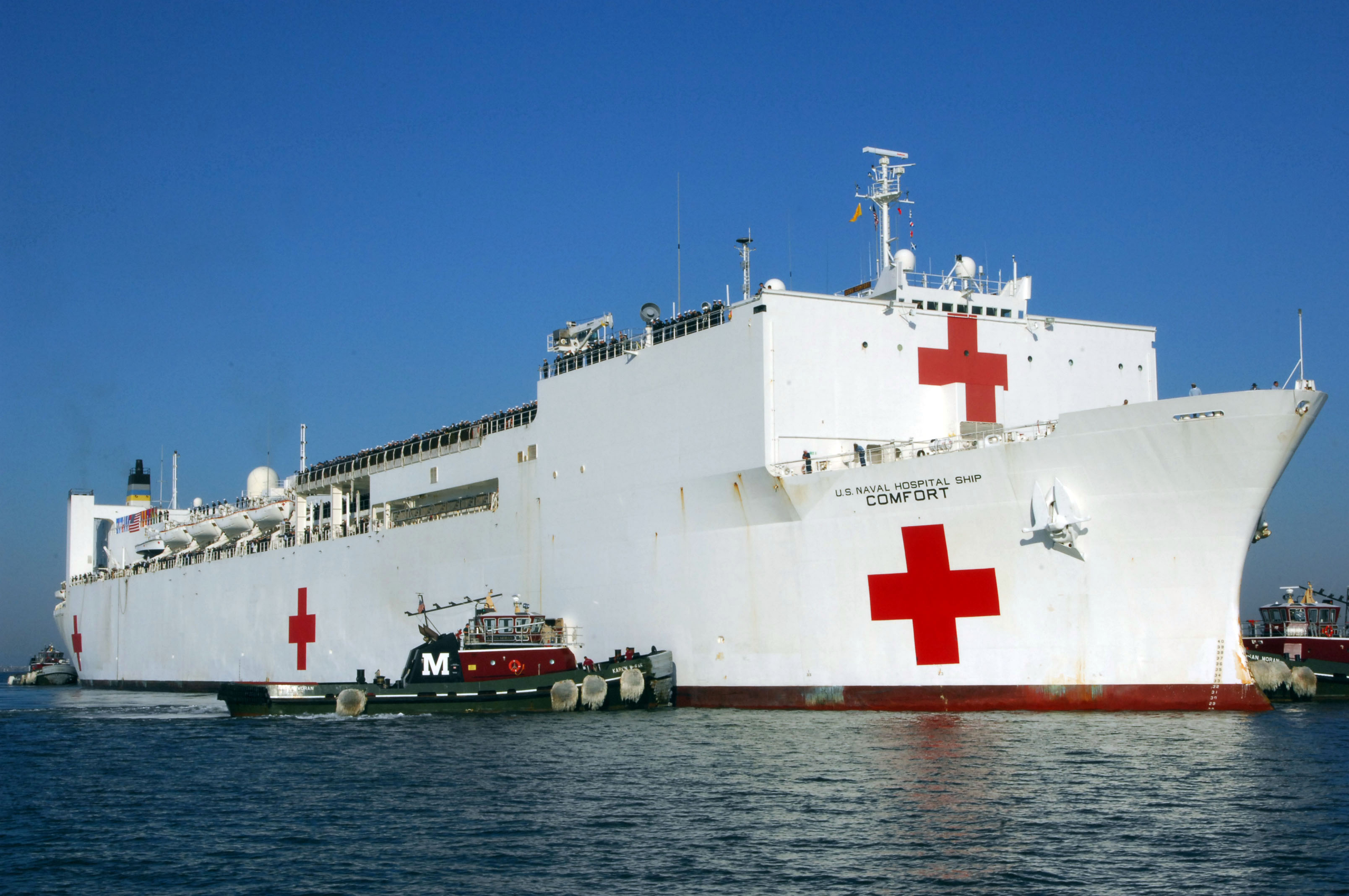 NORFOLK, Va. (Oct. 15, 2007) - Sailors man the rails as Military Sealift Command hospital ship USNS Comfort (T-AH 20) pulls pierside into Norfolk Naval Station. Comfort is wrapping up a four-month humanitarian deployment to Latin America and the Caribbean providing medical treatment in 12 countries. U.S. Navy photo by Mass Communication Specialist 2nd Class Lolita M. Lewis (RELEASED)